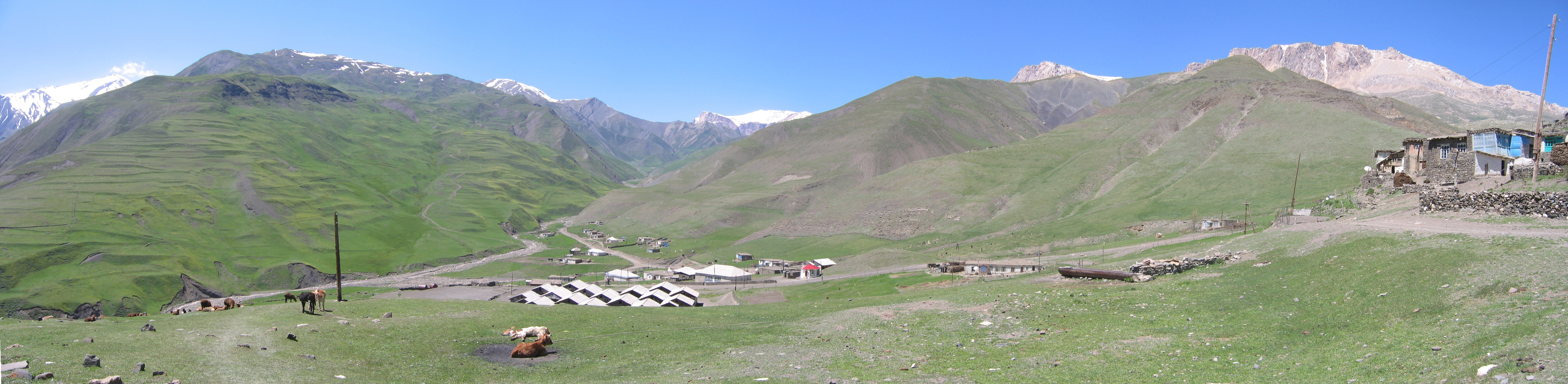 A Panoramic view of Xinaliq